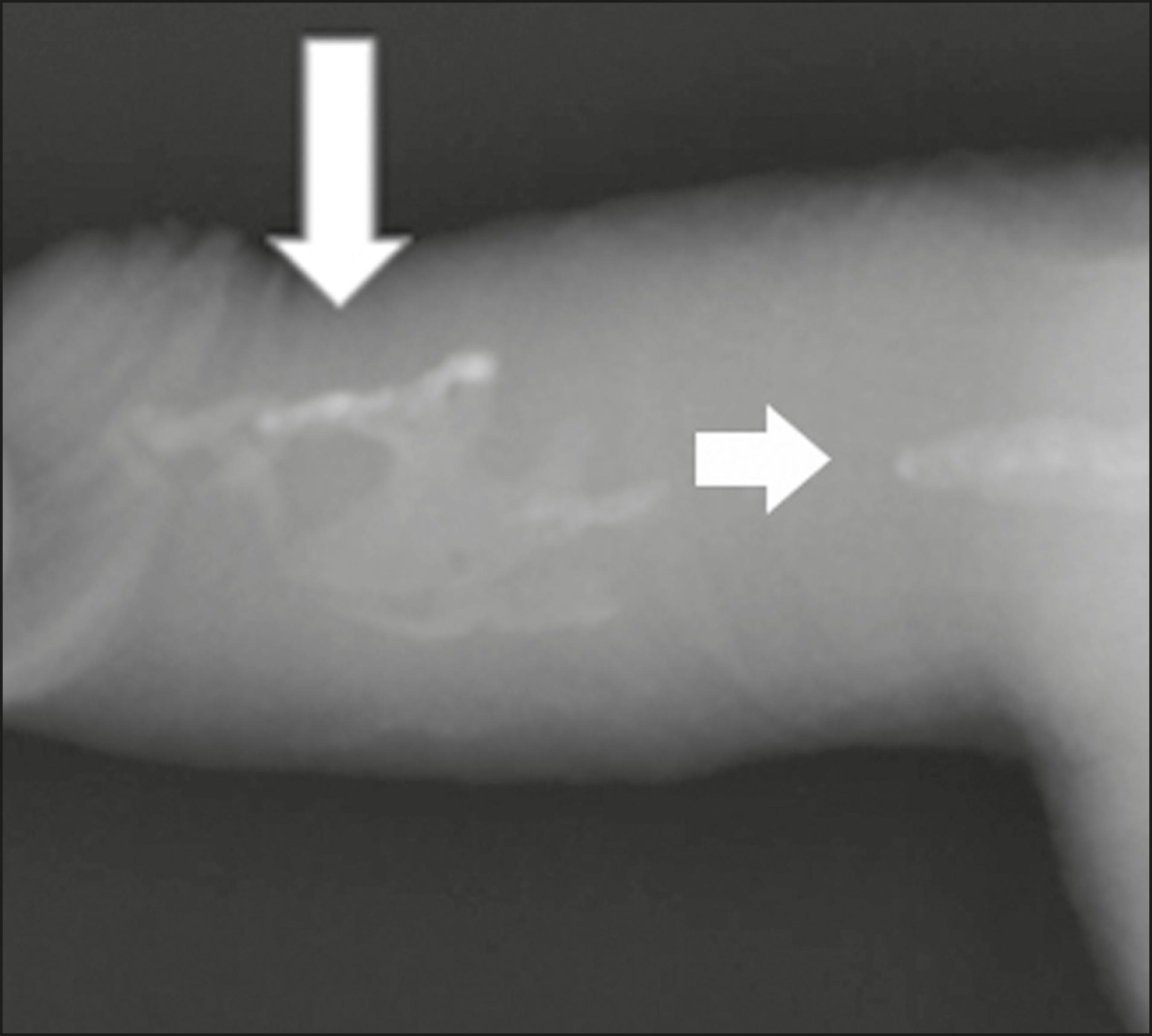 edit For context, see Penile ultrasonography.